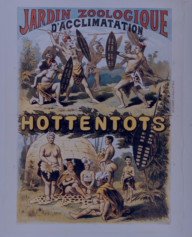 Poster for Hottentot's at the Jardin d'Acclimatation at Paris, c. 1870